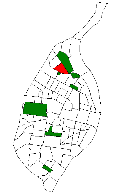 Map of St. Louis Neighborhood #71 (Mark Twain)